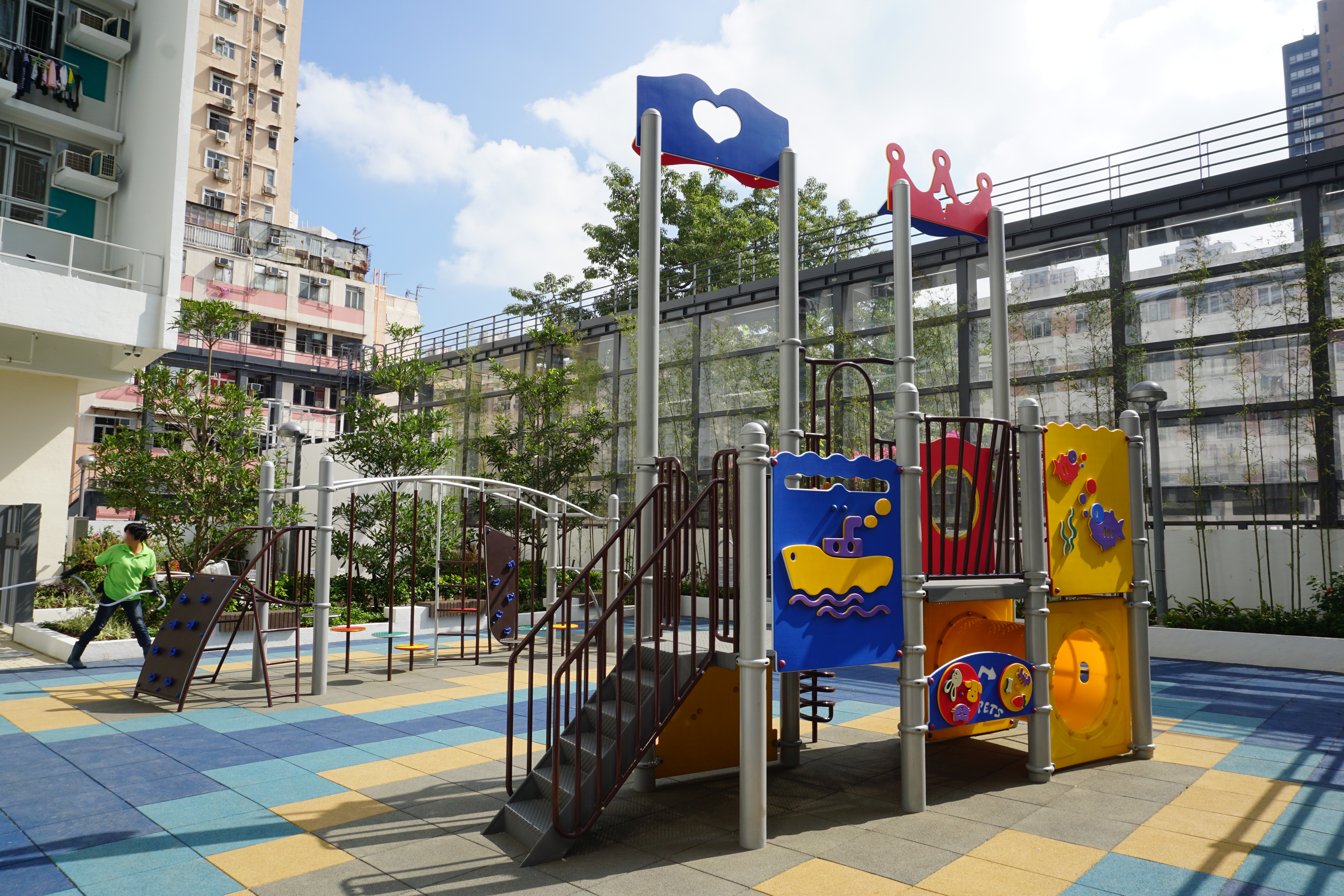 Long Ching Estate in Long Ping, Hong Kong.